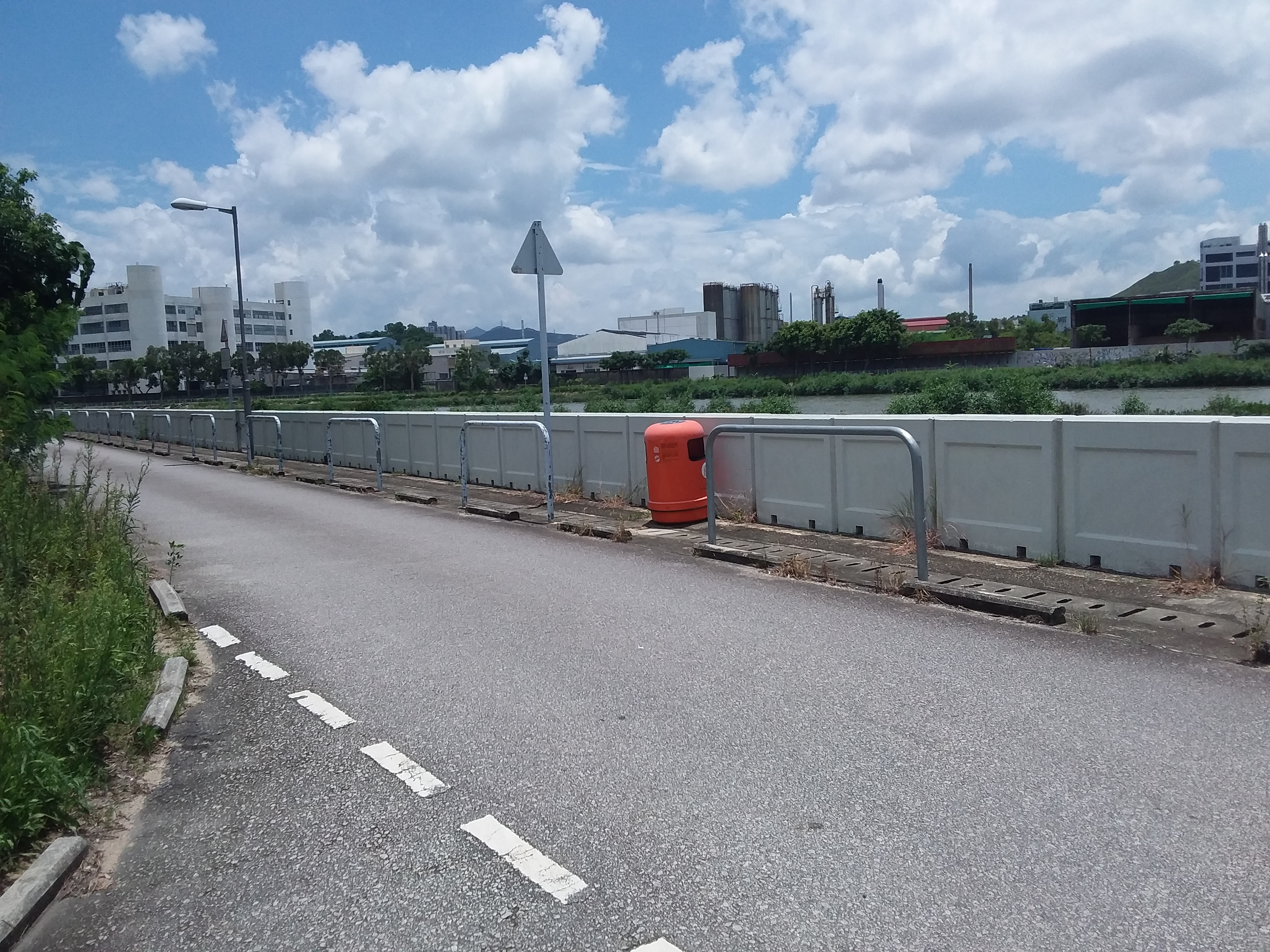 HK YL 元朗區 Yuen Long 南生圍路 Nam Sang Wai Road in July 2019